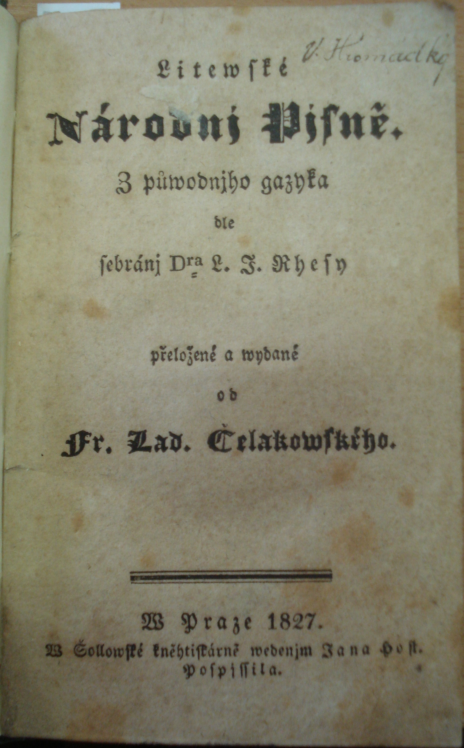 Lithuanian folk songs collected by Lithuanian scholar Liudvikas Rėza, Czech translation by Czech writer and translator František Ladislav Čelakovský